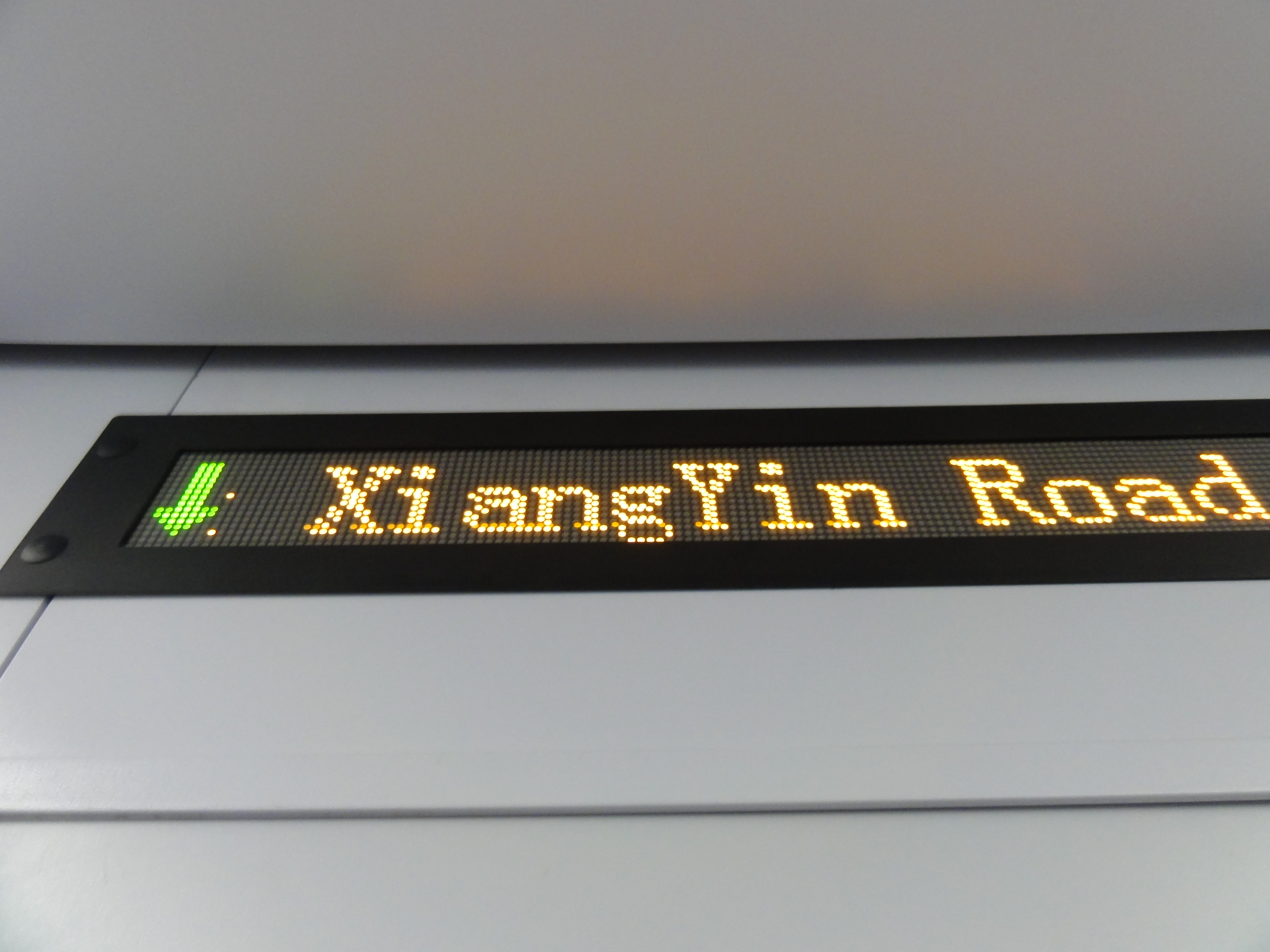 LED Screen inside the new trains of Shmetro Line 8